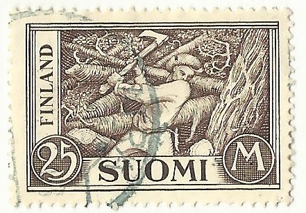 Stamp of Finland